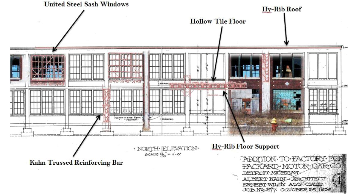 Packard factory plant building 10 blue print